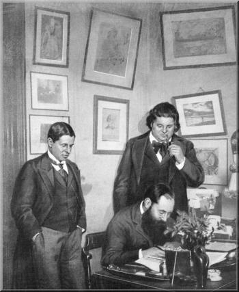 Albéric Magnard (standing left) with violinist Eugène Ysaÿe (standing, smoking pipe) and composer Guy Ropartz, in Ropartz's study at a time when he was director of the Nancy Conservatory. Photo from c. 1911.